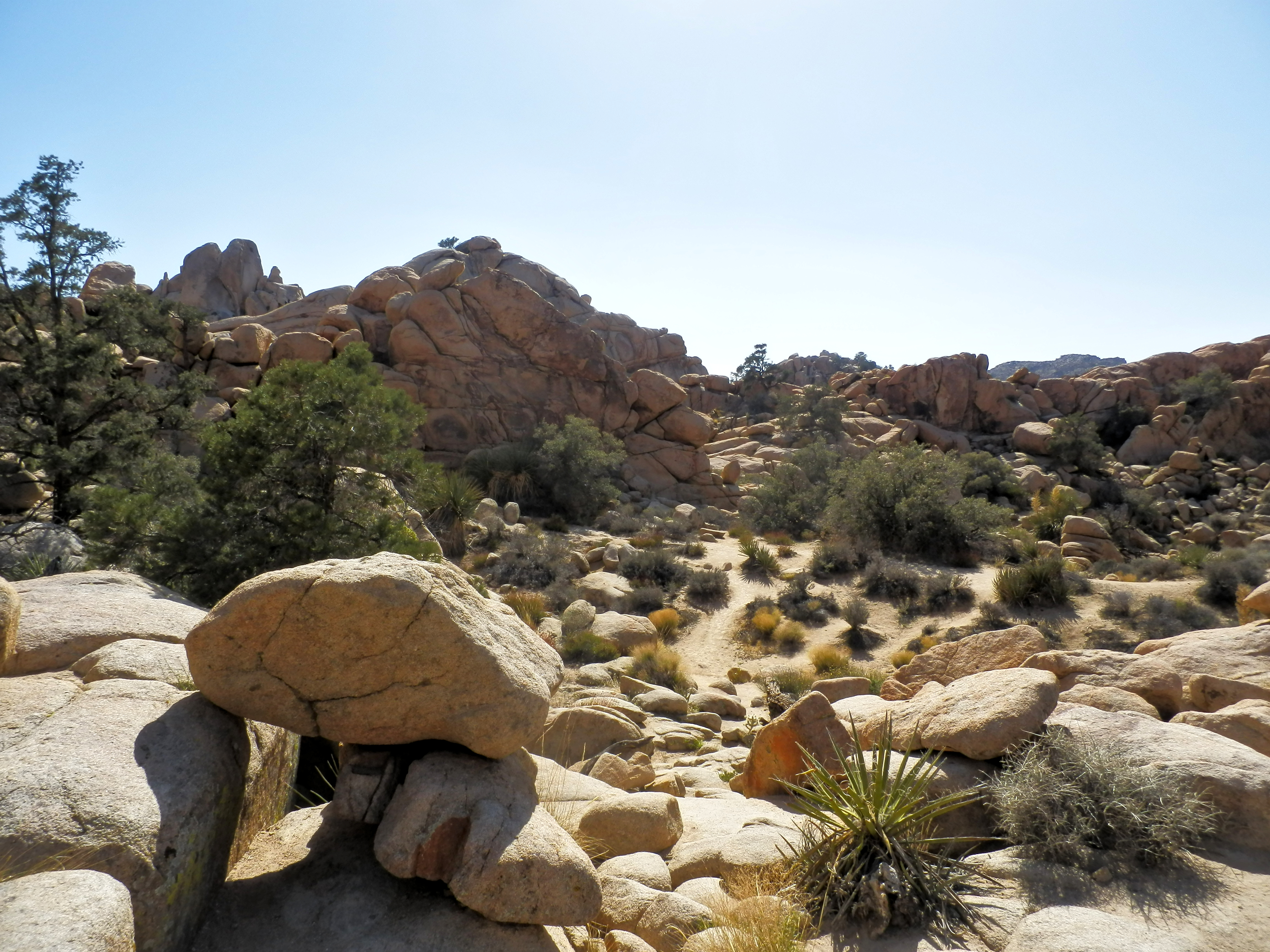 Joshua Tree Nationalpark Hidden Valley Nature Trail